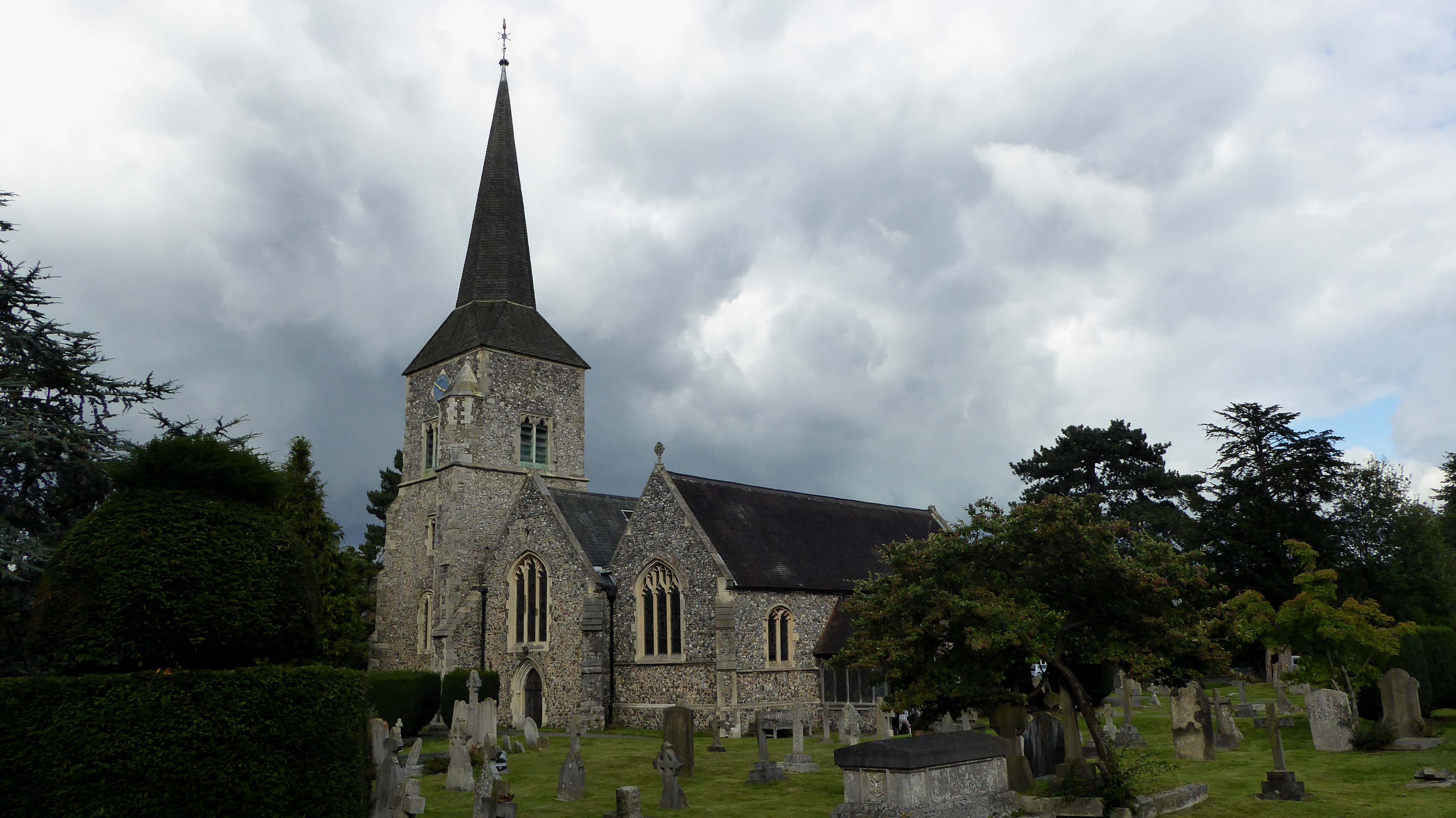 St Nicholas' Church in Chislehurst, southeast London, as seen from the southwest of the building.